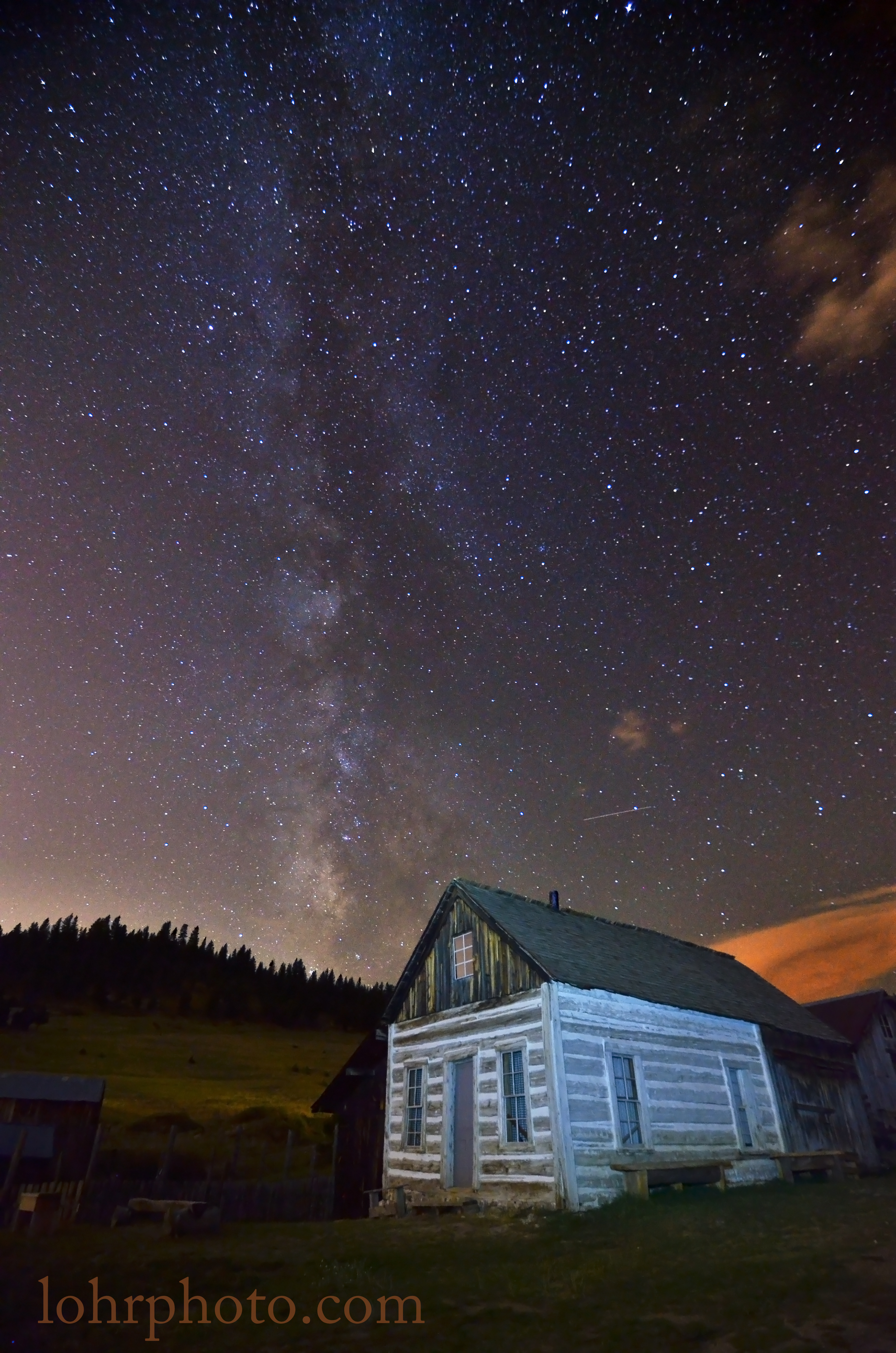 Walker Ranch Historic District, West of Boulder; also 7.5 miles west of Boulder off Flagstaff Rd. Boulder - Historic Walker Cabin under the Milky Way